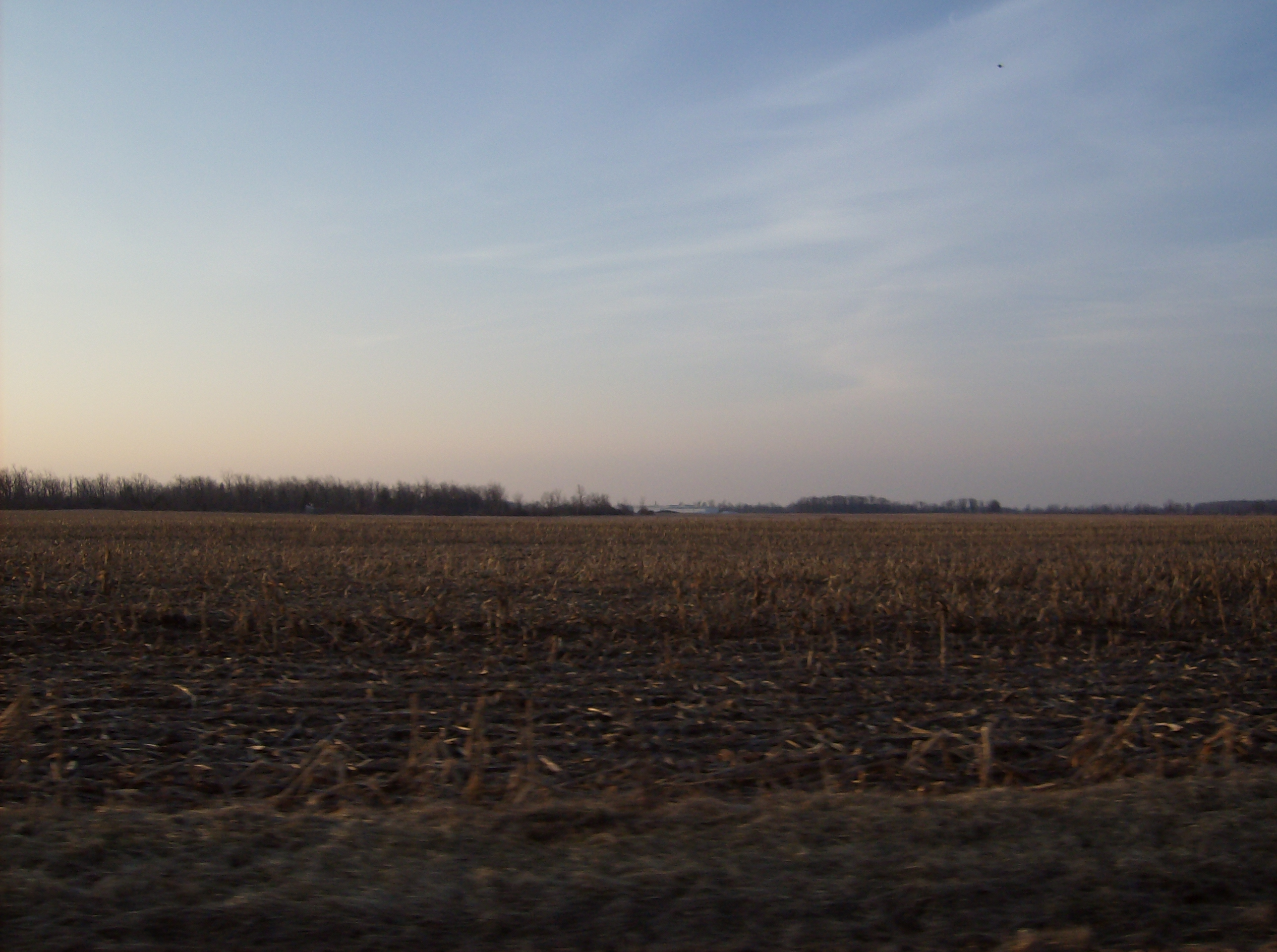 View of farmland in Buck Township, Hardin County, Ohio, United States. Picture taken from Ohio State Route 67.